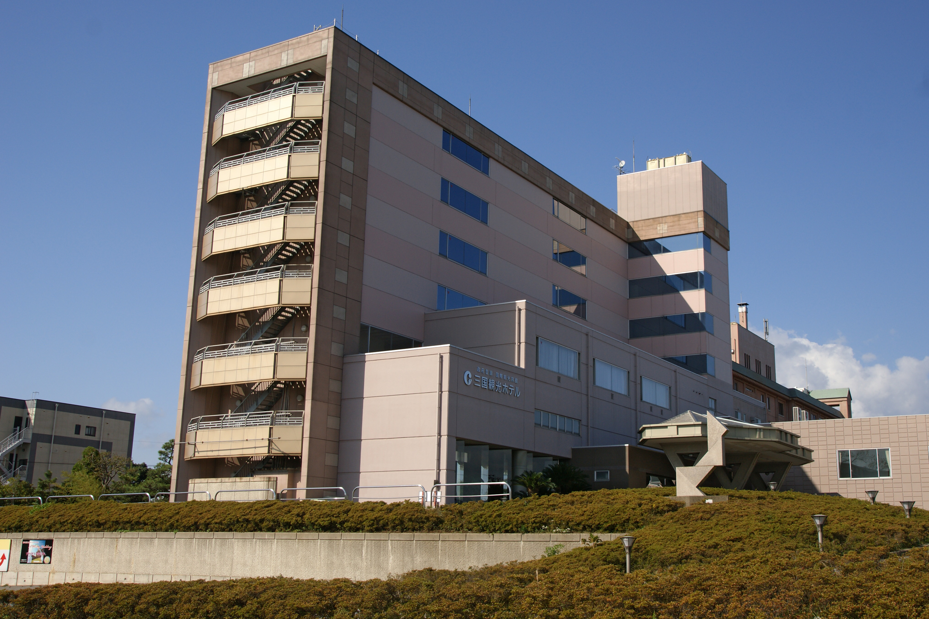 Mikuni Kanko Hotel, Sakai, Fukui prefecture, Japan